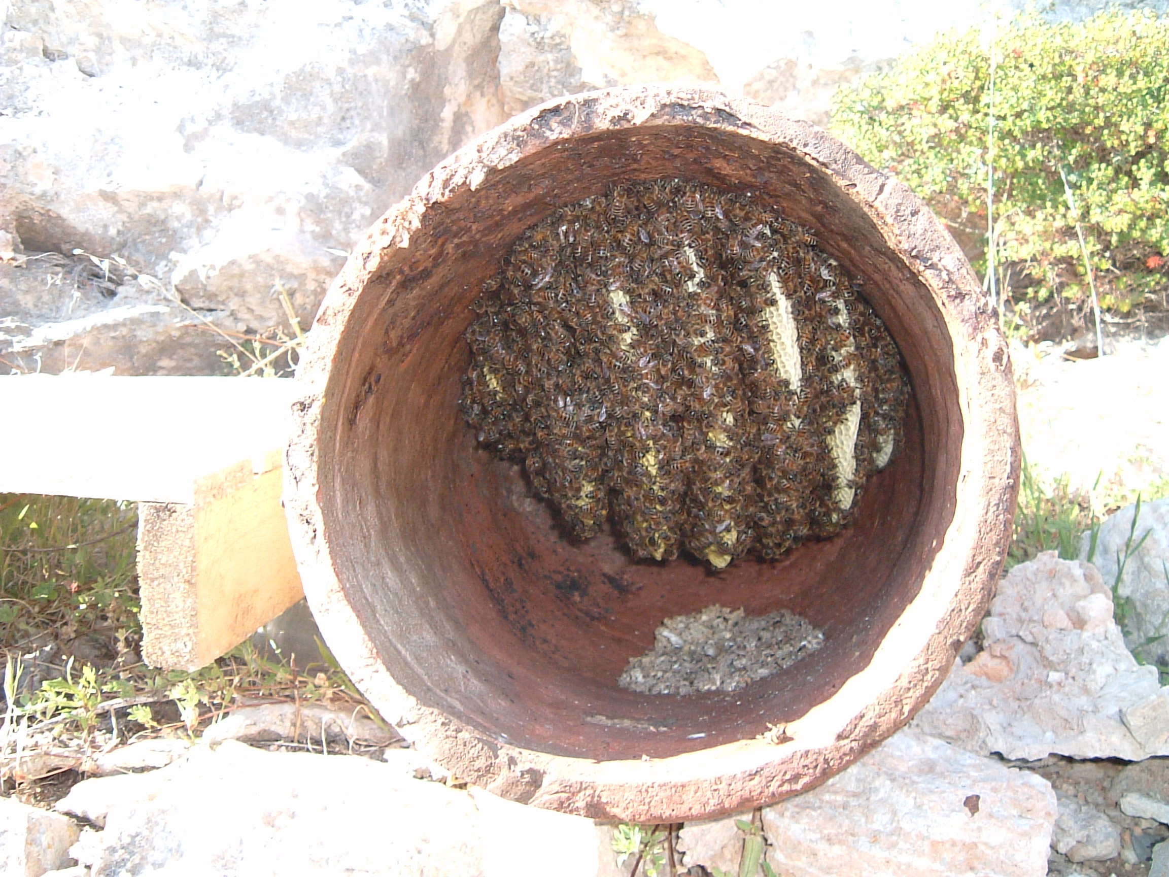 Traditional way of bee keeping in Malta, altough after the arrival of the varroa mite, many beekeepers changed to the movable frame system.